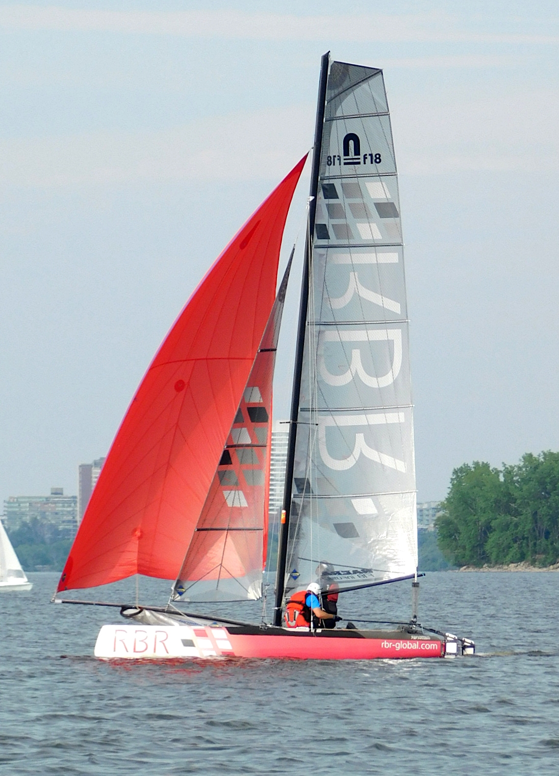 A Formula 18 catamaran sailboat